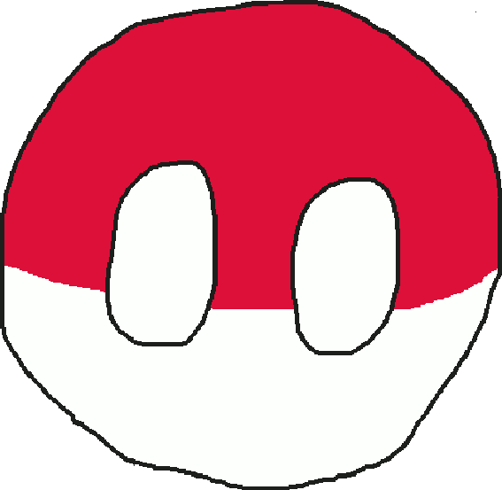 An improved drawing of Polandball for the Polandball Wikipedia article.